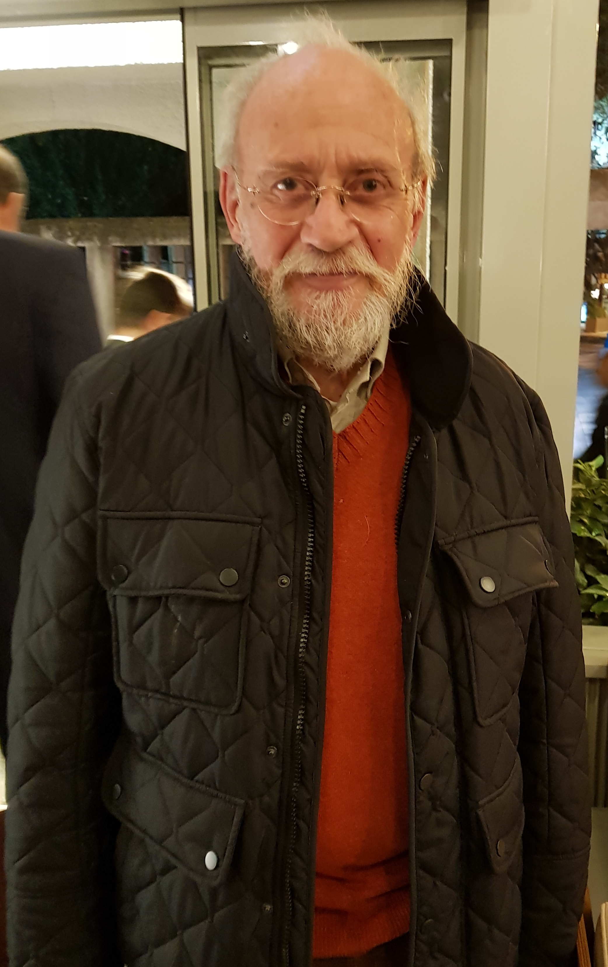 Alp Yalman 20181031